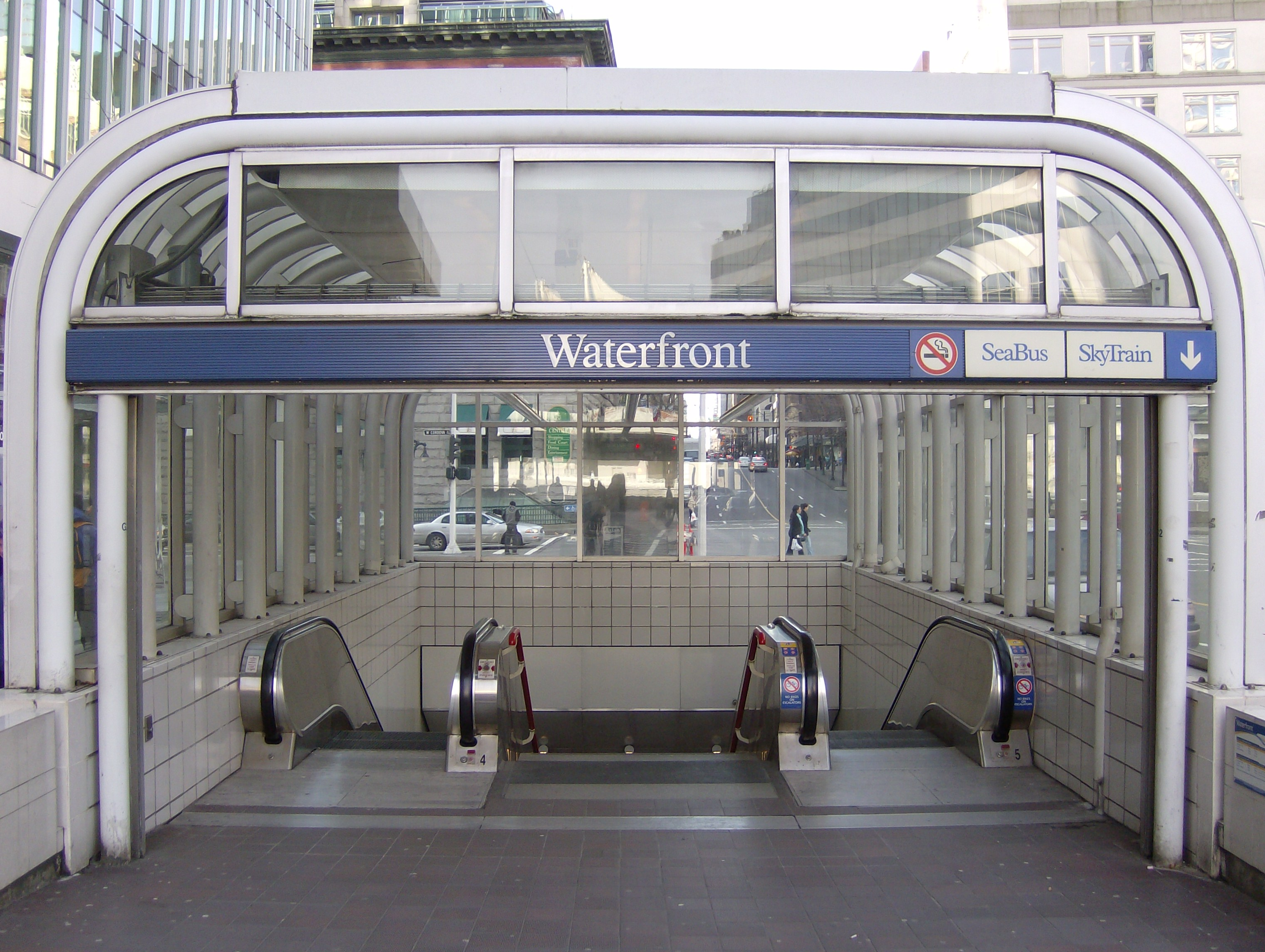 The enterance to the SkyTrain station at Waterfront station